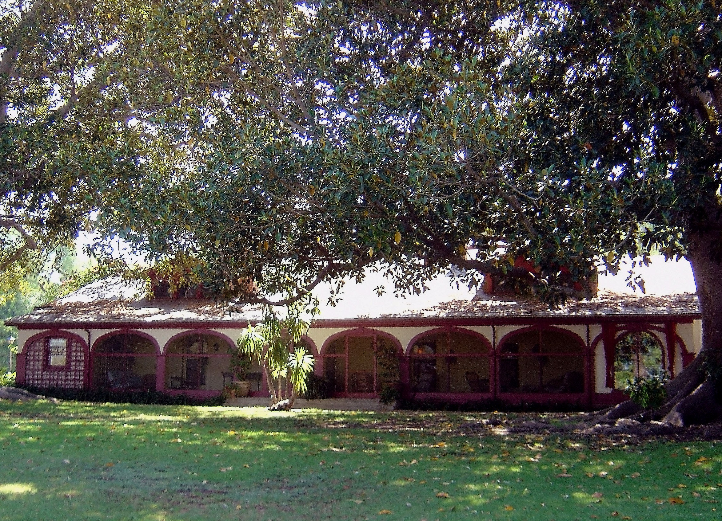 The exterior of the adobe house at Rancho Los Alamitos historic house museum, gardens, and park, in Long Beach, Los Angeles County, California.